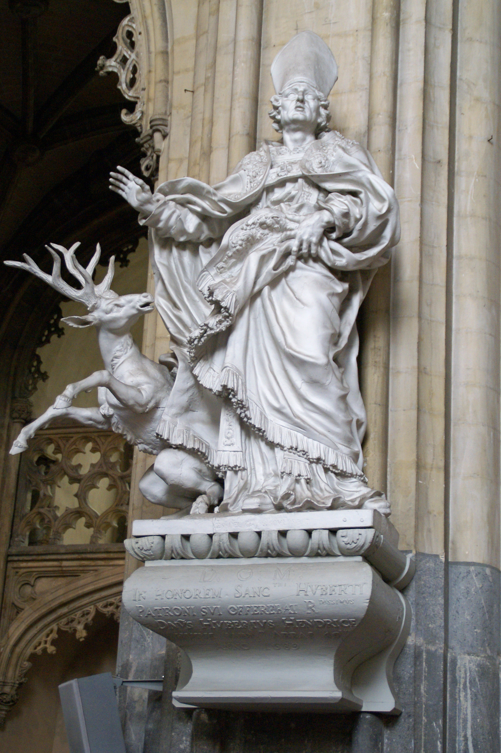 Liège (Belgium), Saint Jaques's Church: Statue from Hubert de Lieja (1689) by Jean Del Cour